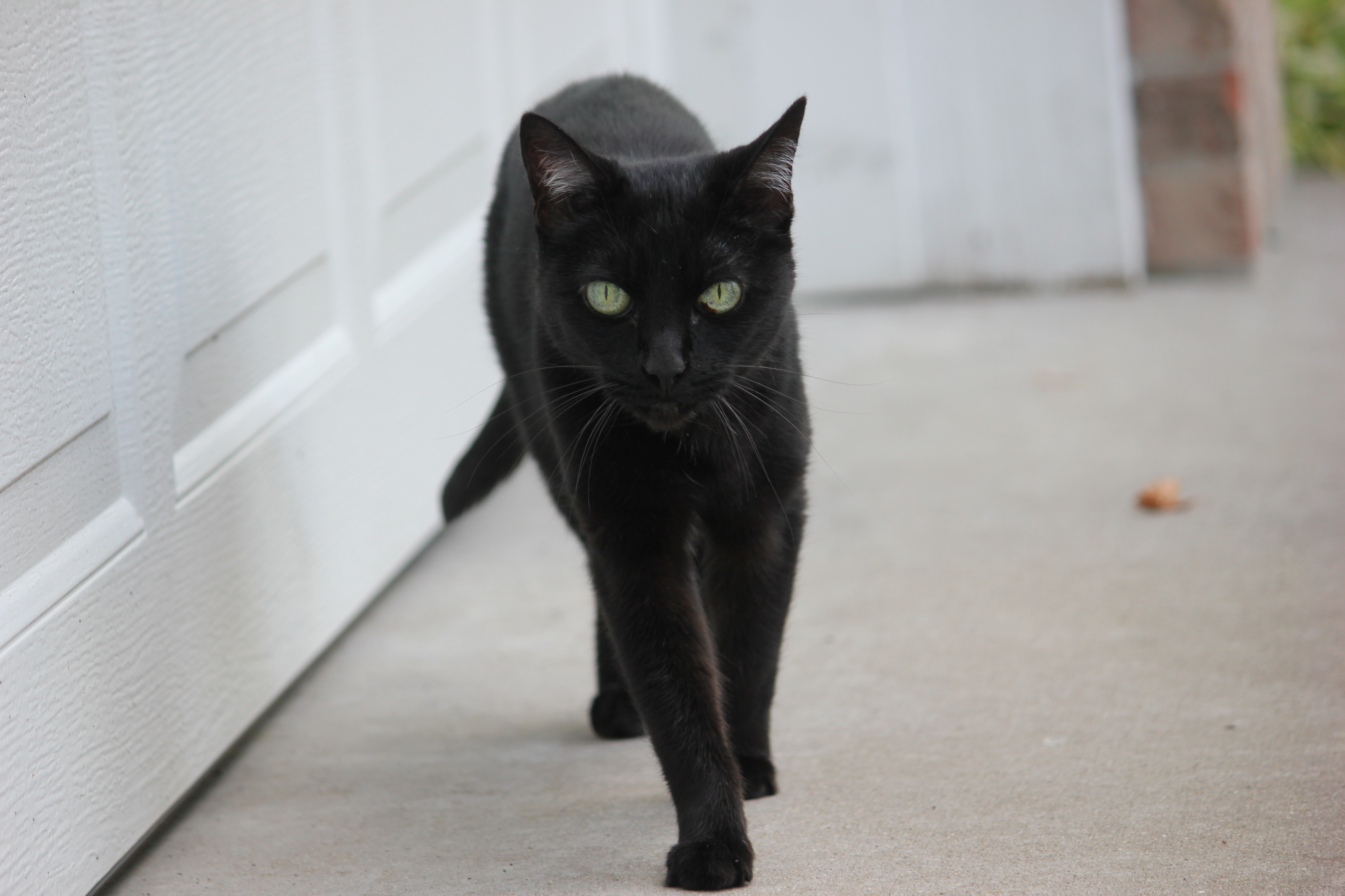 Black cat